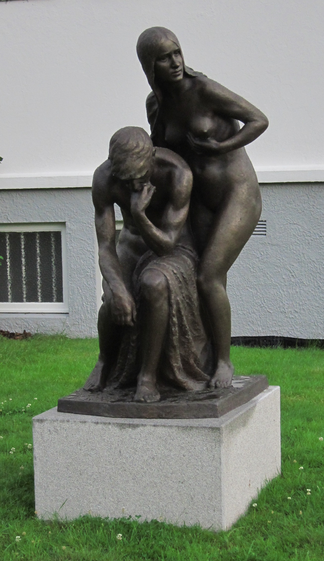 Sculpture by Anders Svor, displayed in garden of museum, Hornindal, Norway.